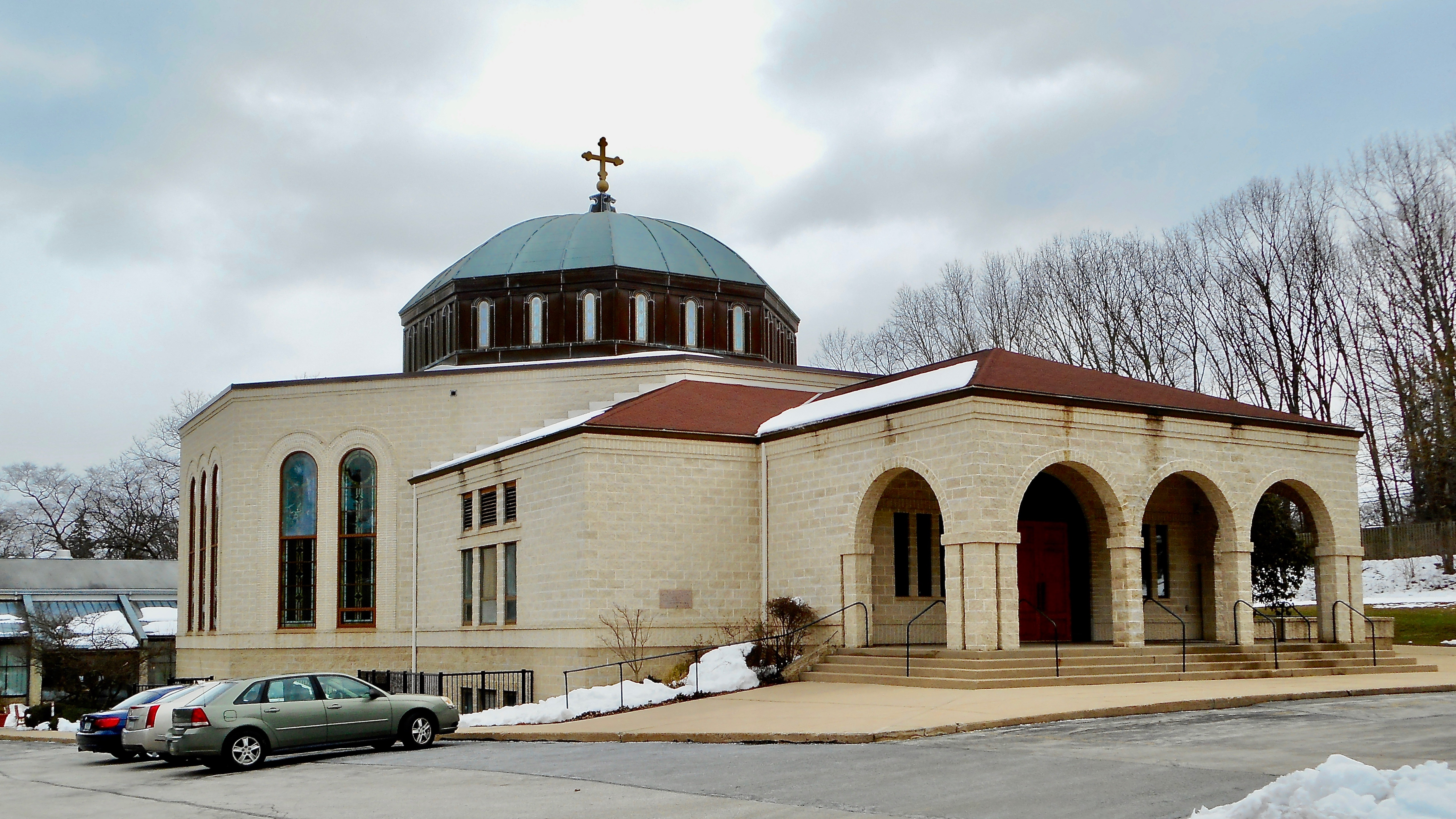 St Lukes Orthodox Church on North Malin Road, Marple Township, Delaware County, Pennsylvania. Built about 1960